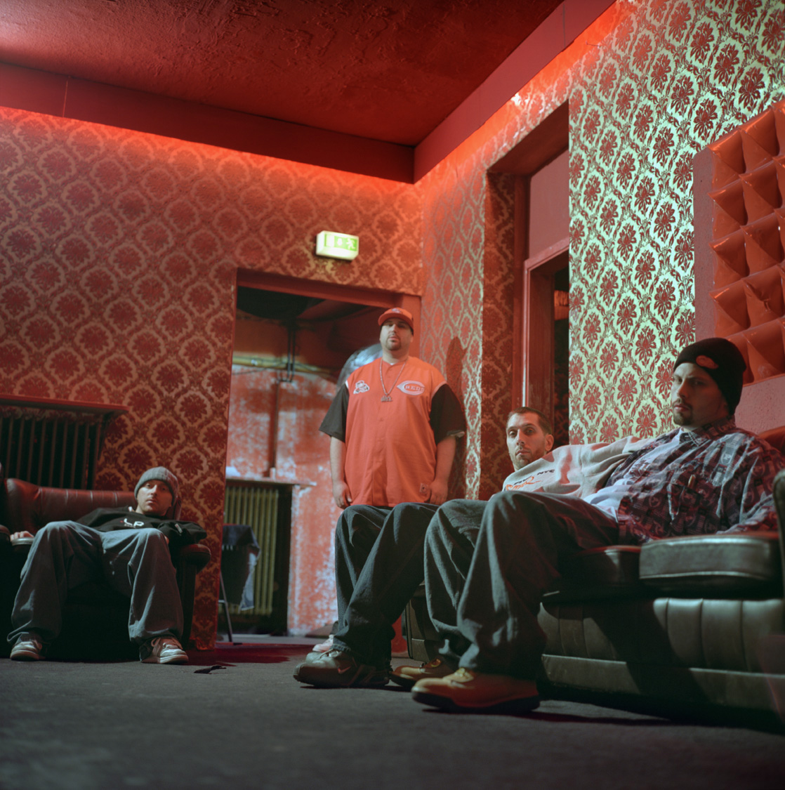 Hamburg/Germany 2003, rap crew